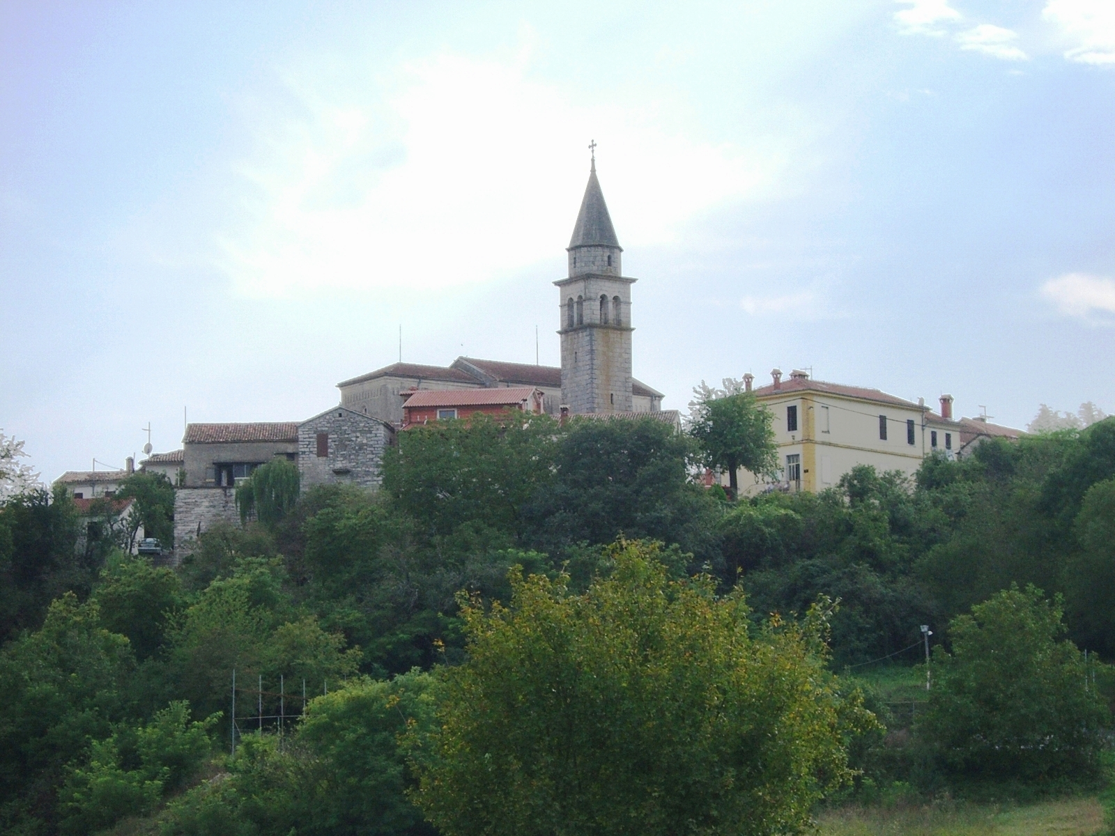 Beram seen from below